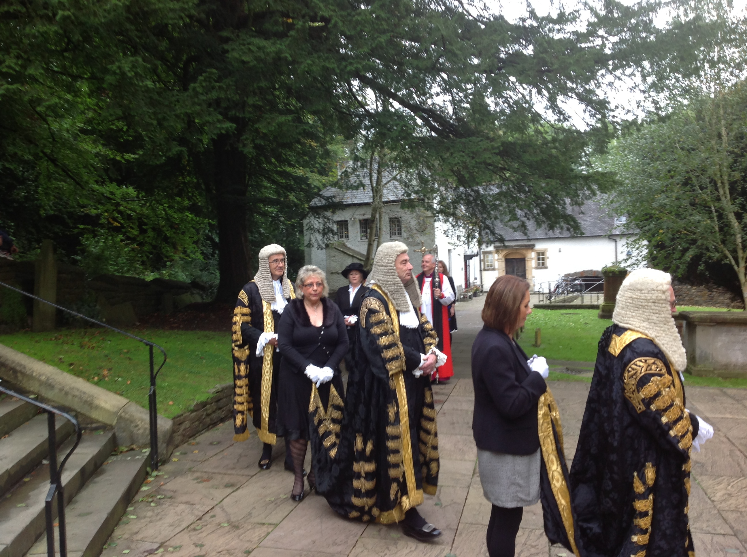 The Legal Service for Wales at Llandaff Cathedral. 13 October 2013